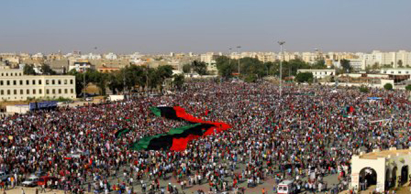 Several hundred thousand Anti-Qaddafi protesters, coming from and around Benghazi, took to the streets on 6 July 2011. Here in front of the Beraka Kateba, justice court-yard.